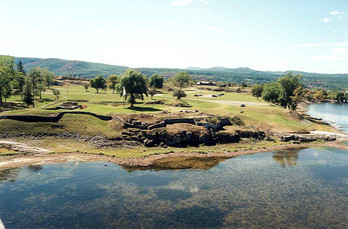 Crown Point, NY, foreground: French Fort St. Frédéric